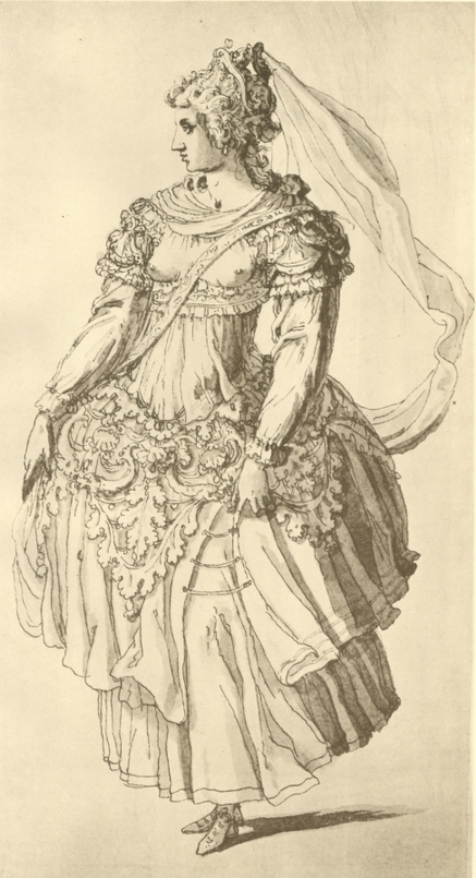 Inigo Jones, Costume design for a nymph for "Tethys' Festival" by Samuel Daniel